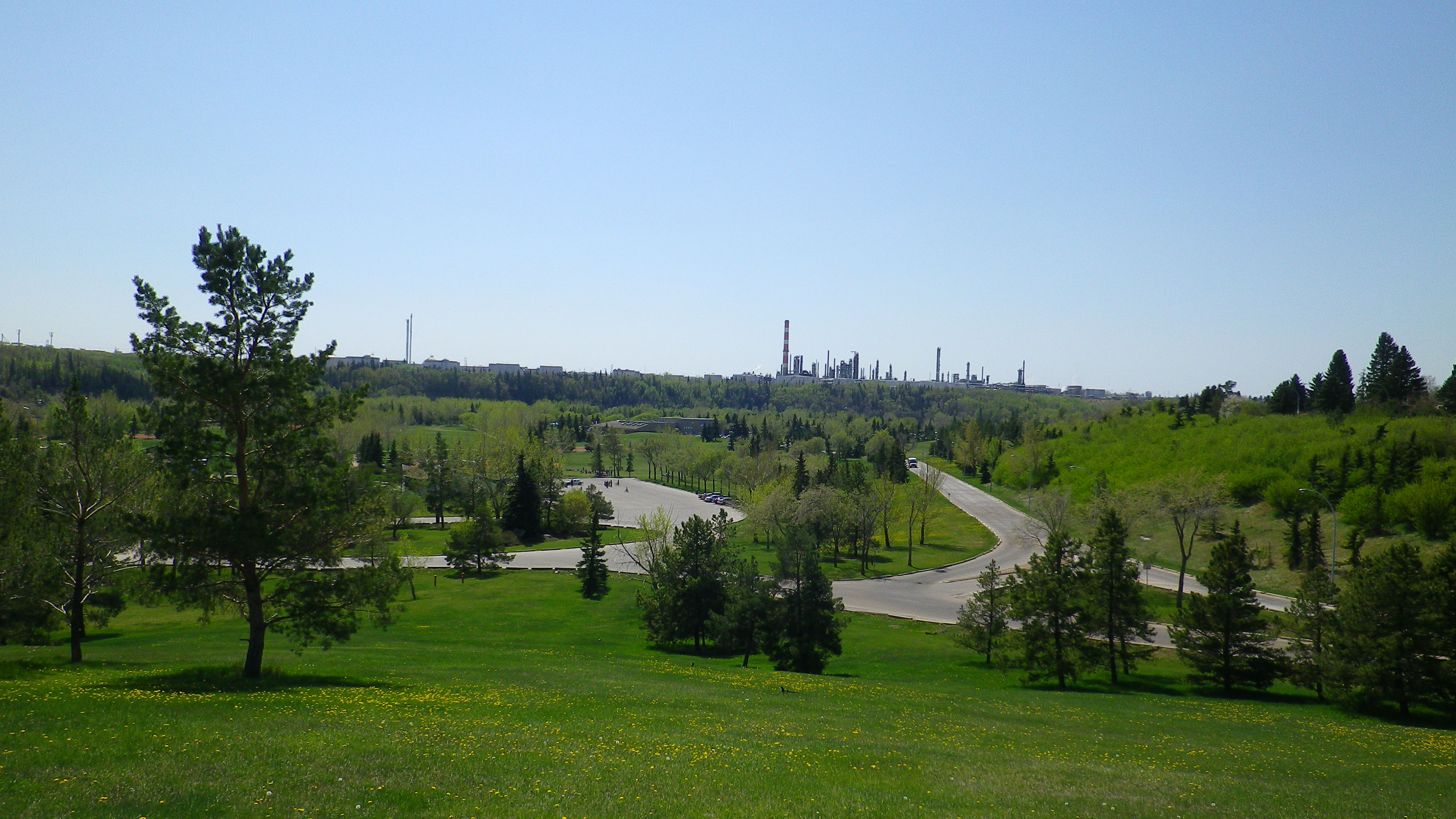 North side of Rundle Park in Edmonton, Canada. Picture was taken facing south-west.